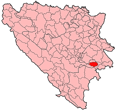 Location of Goražde municipality in Bosnia and Herzegovina.